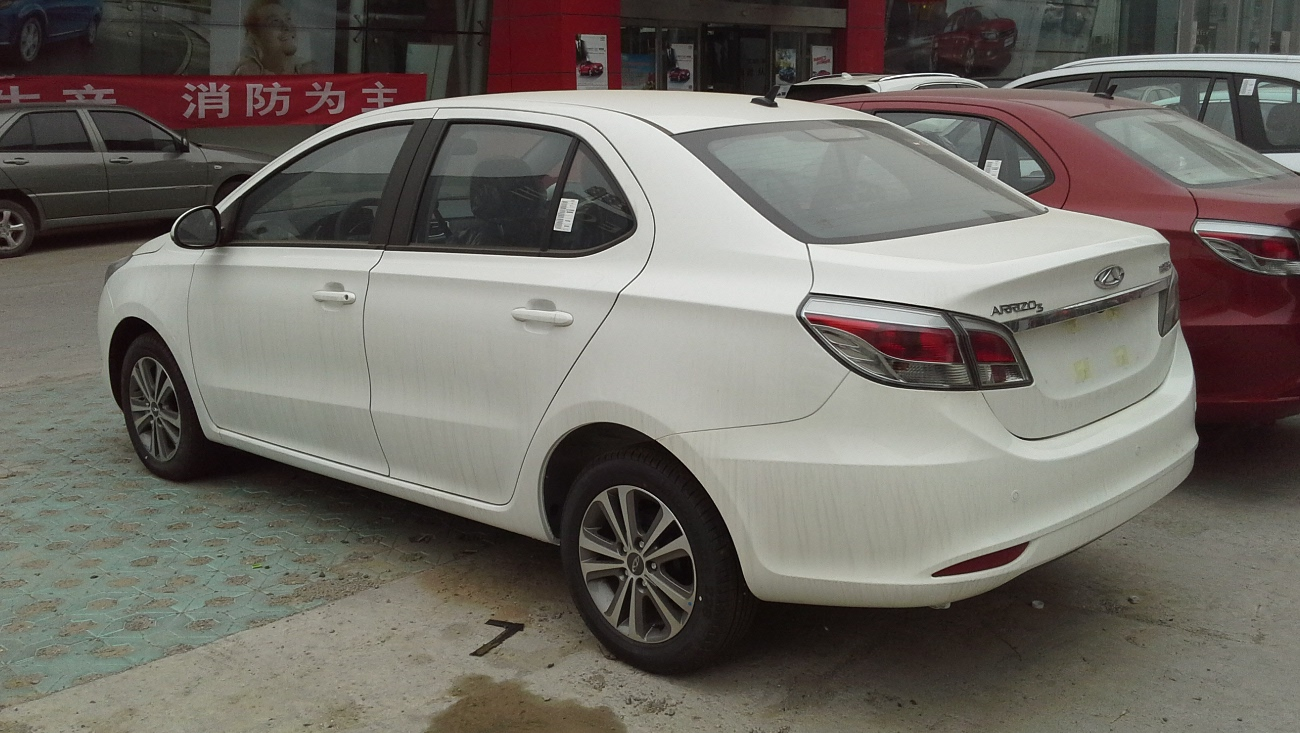 Chery Arrizo 3 photographed in Beijing, China.